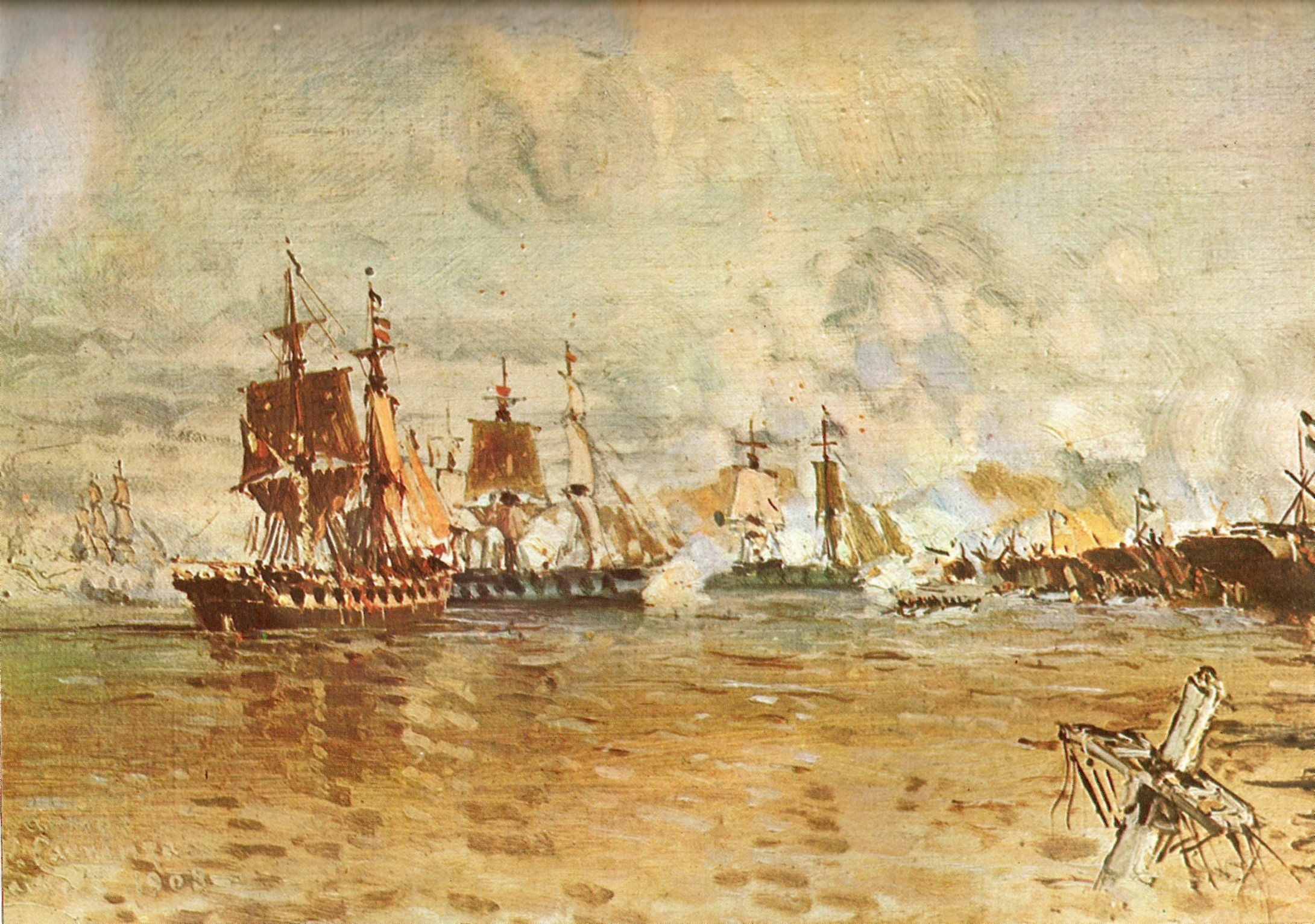 The Anglo-French armada forces its way through the Vuelta de Obligado